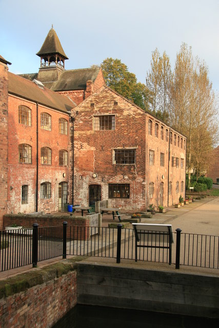 Coalport Pottery This is the earliest part of the works and now houses a cafe and a Youth Hostel.